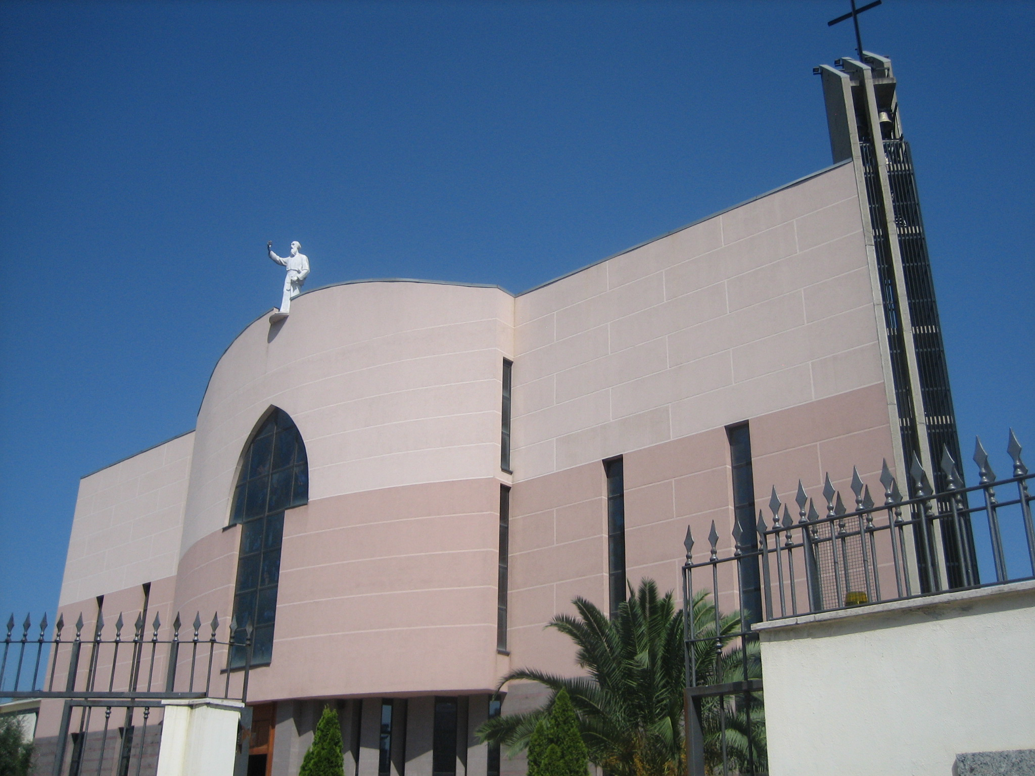 Saint Paul's Cathedral in Tirana, Albania